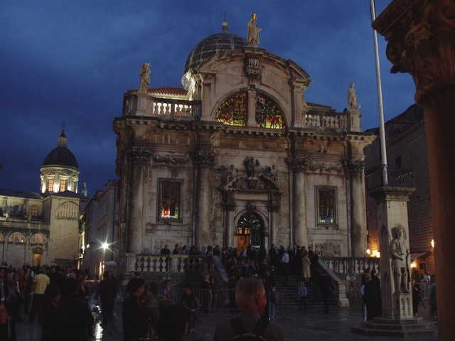 photo of church of St. Blaise in Dubrovnik with Roland Statue and view to the dome of the cathedral